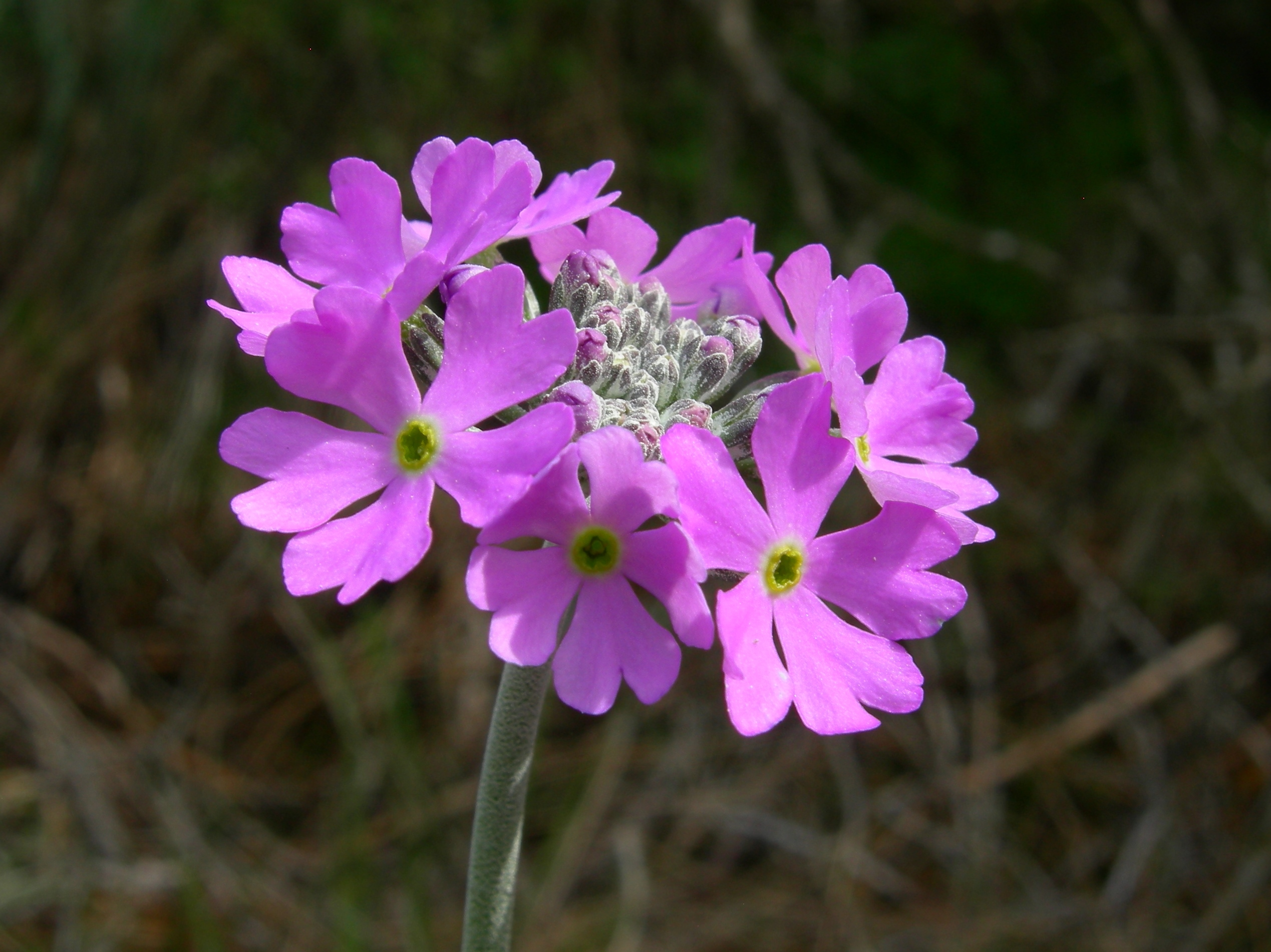 Primula farinosa in Wetland Šobec, Slovenia (natural sight, where you can see tuffa-forming springs).